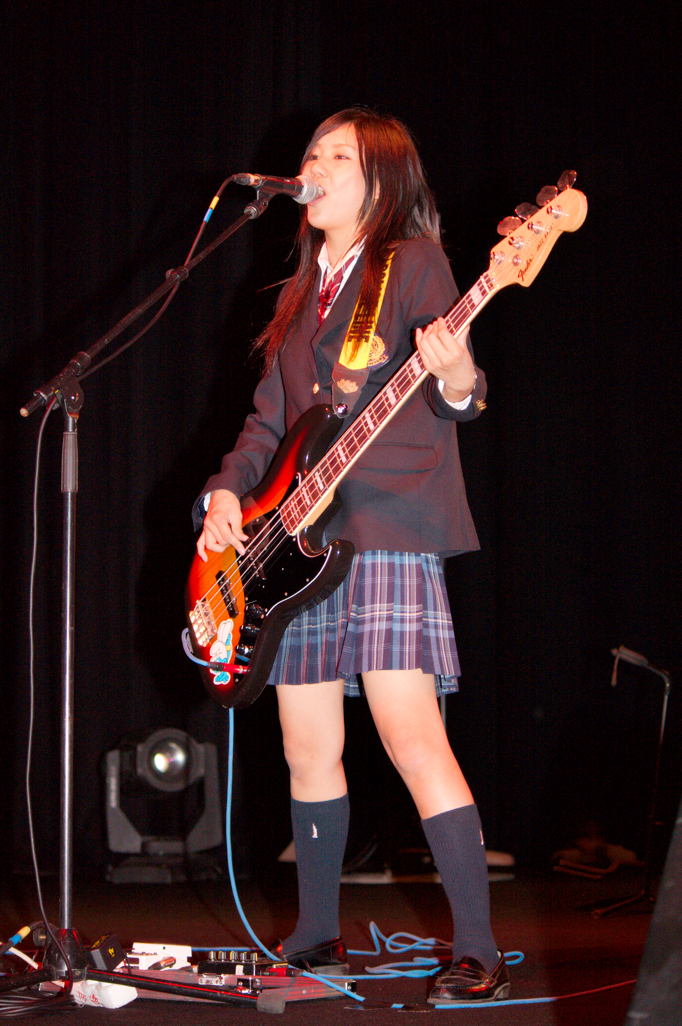 SCANDAL live at Japan Expo 2008 (Paris, France).